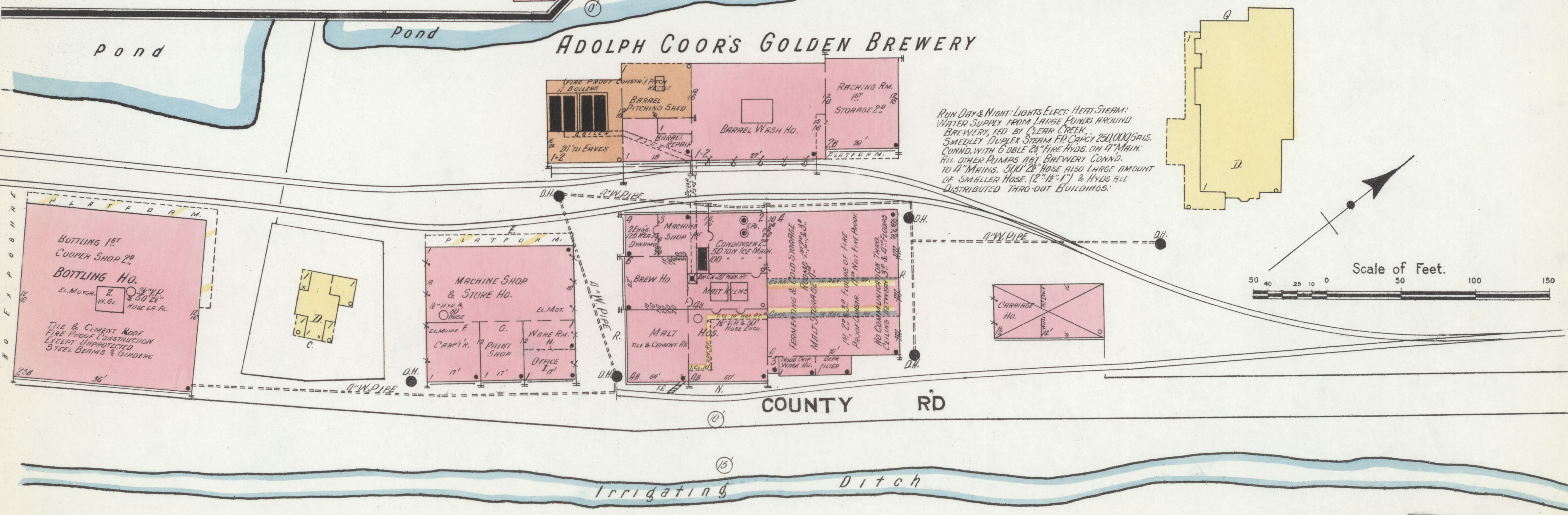 Jun 1911. 11 Sheet(s).